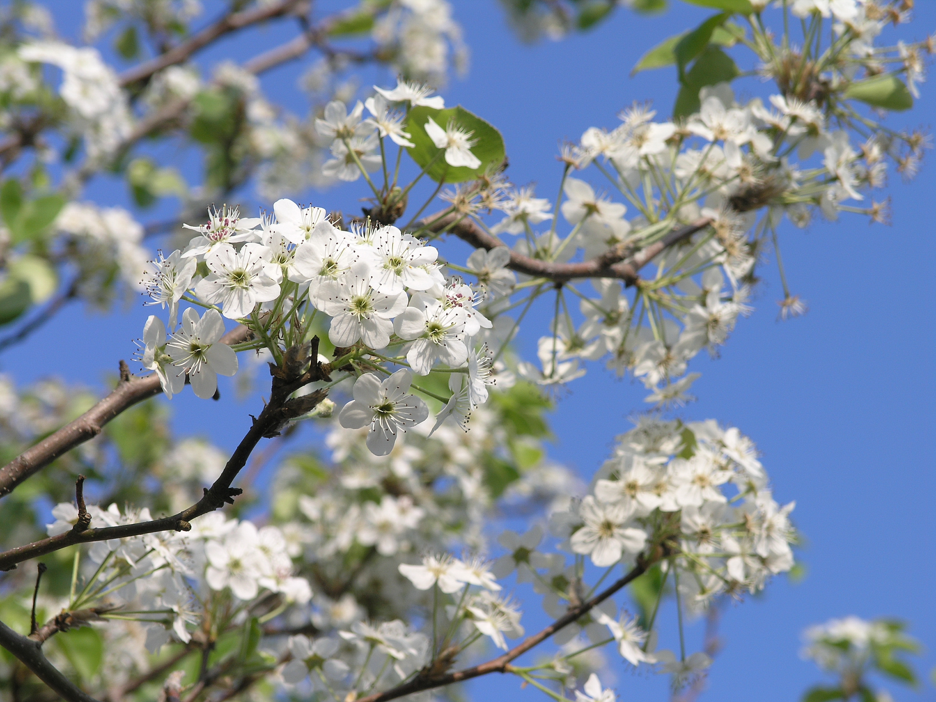 Bradford Pear, Callery Pear